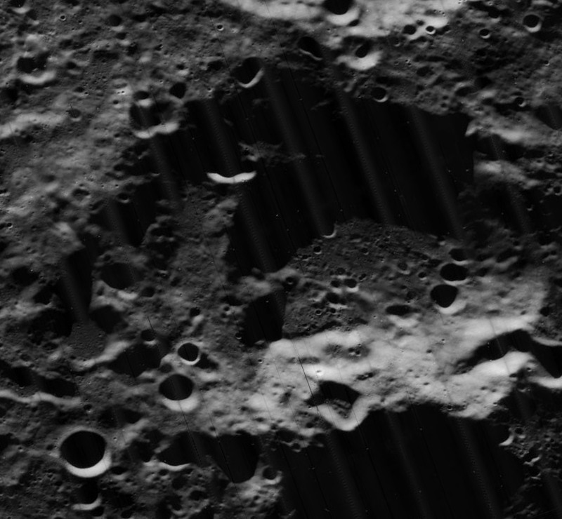 Oblique view of Niepce, on the far side of the moon, facing west.